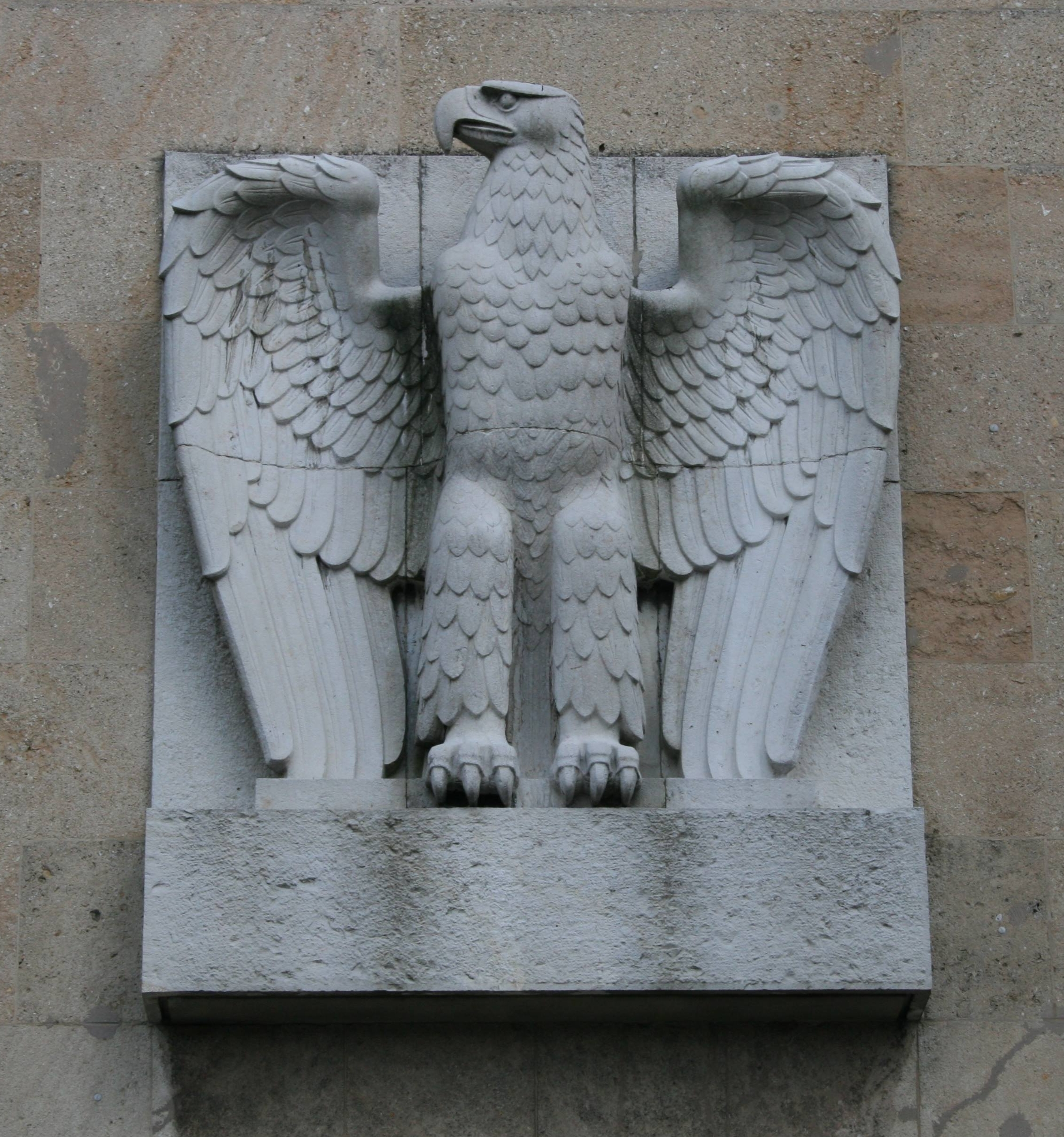 Imperial eagle on the building front of the main building Tempelhof Airport, Berlin